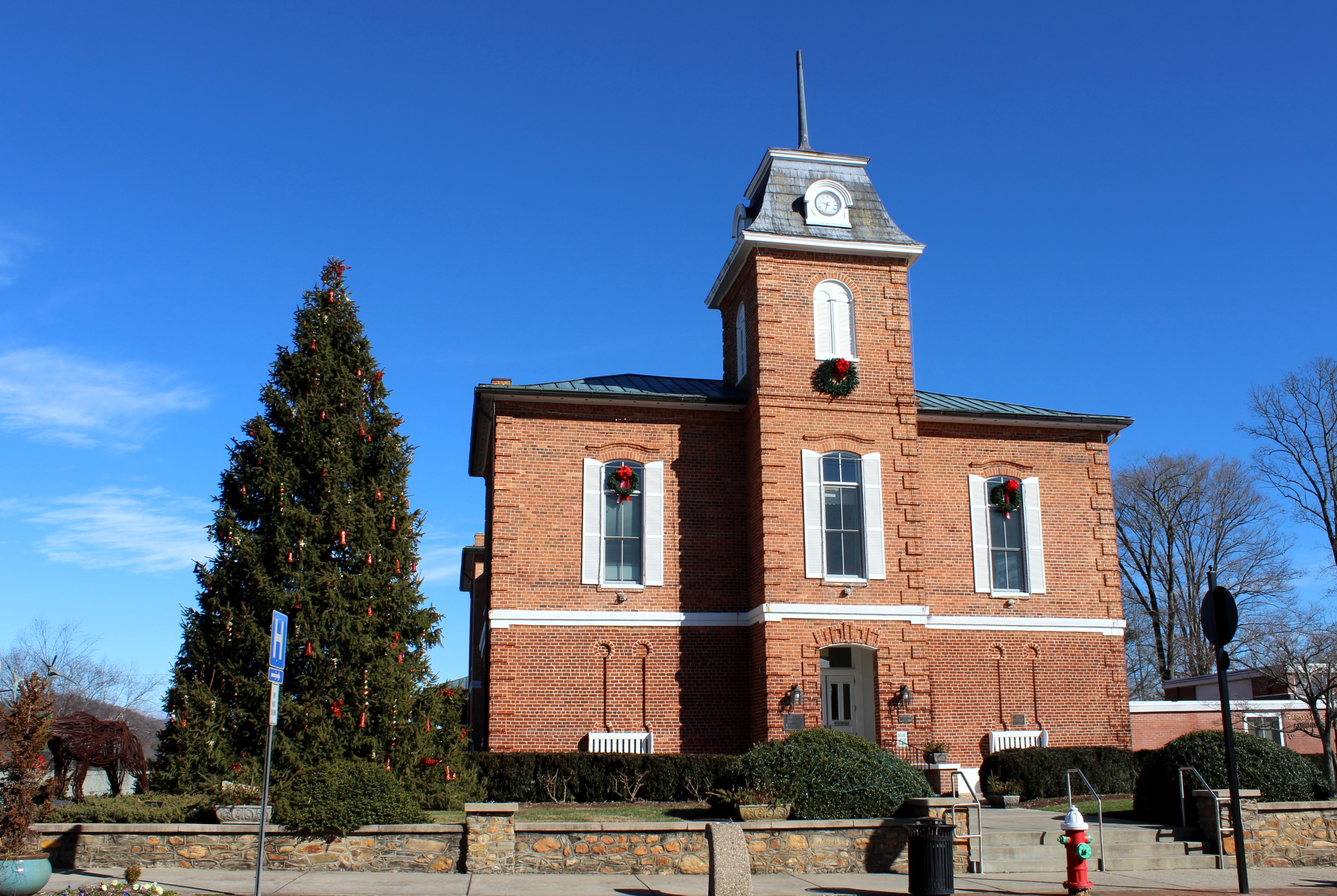 Transylvania County Courthouse in Brevard, North Carolina.